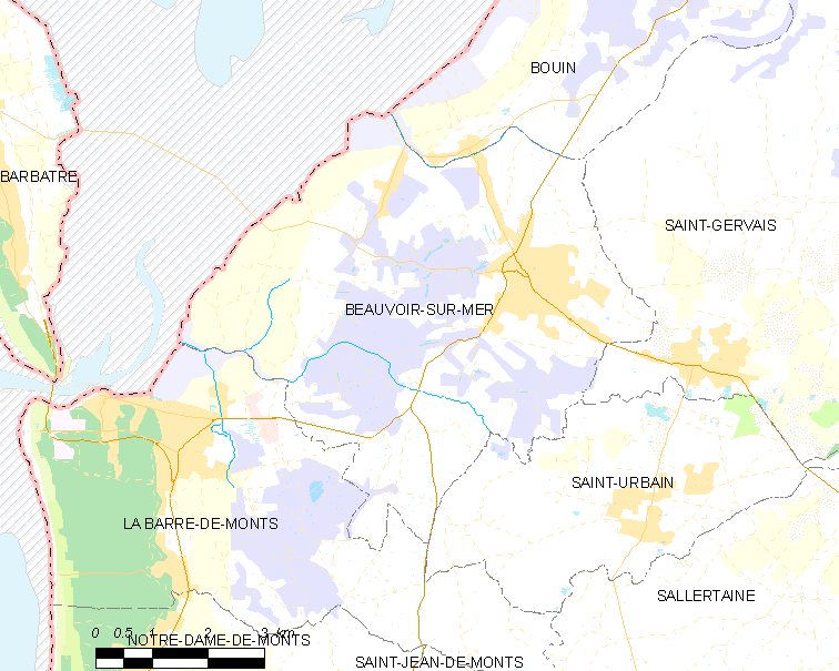 Map of French municipality Beauvoir-sur-Mer